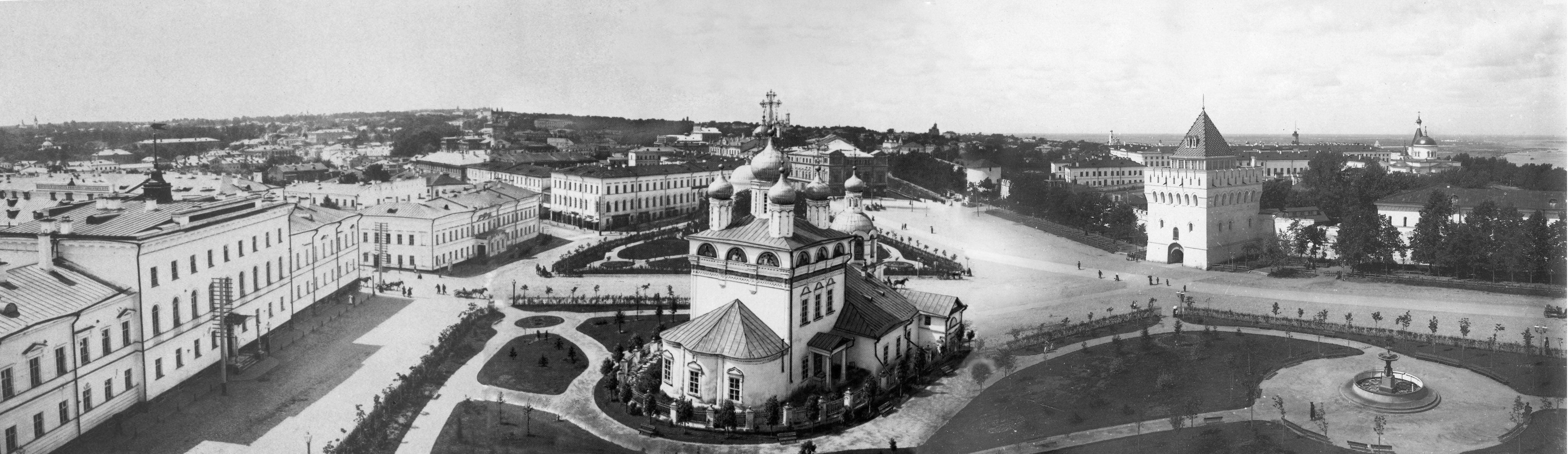 Panoramiс image of Annunciation Square in Nizhny Novgorod